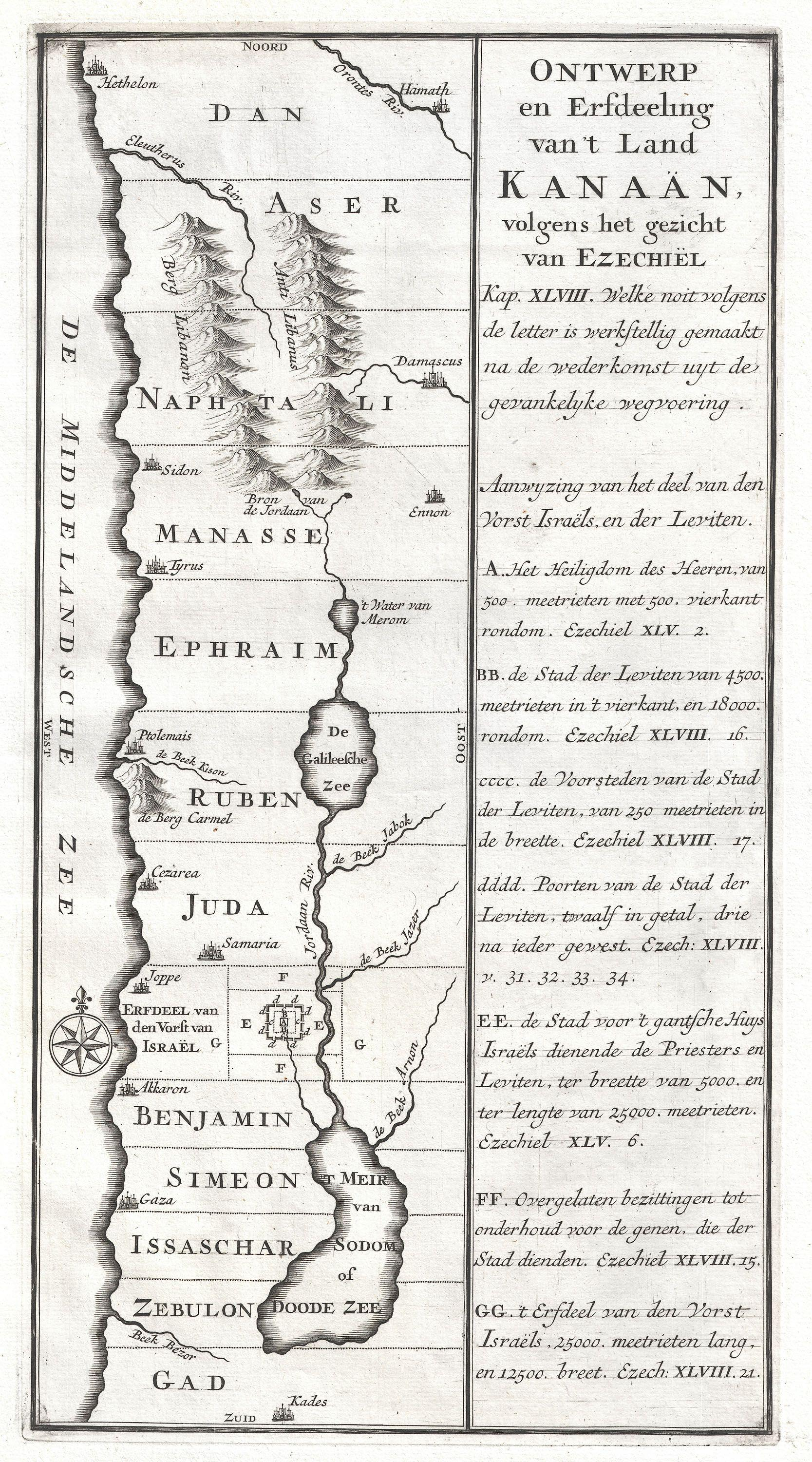 An extremely uncommon c. 1729 map of ancient Israel. Most likely drawn by the Dutch engraver Schryver, this map shows Israel from Hethelon in the north to Kades, just south of the Dead Sea. Divided into the areas controlled by the Twelve Tribes of Israel, from the north these are Dan, Aser, Naphtali, Manasse, Ephraim, Ruben, Juda, Benjamin, Simeon, Issachar, Zebulon and Gad. Shows several important cities including Jerusalem, Gaza, Cezarea (Caesarea), Damascus, Tyrus (Tyre), Joppe (Jaffa near modern Tel Aviv), etc. The right side of the map is dedicated to Old Testament quotations, mostly drawn from the Book of Ezekiel, describing the region. Probably issued in an early 18th century Dutch Bible or other Biblical reference.